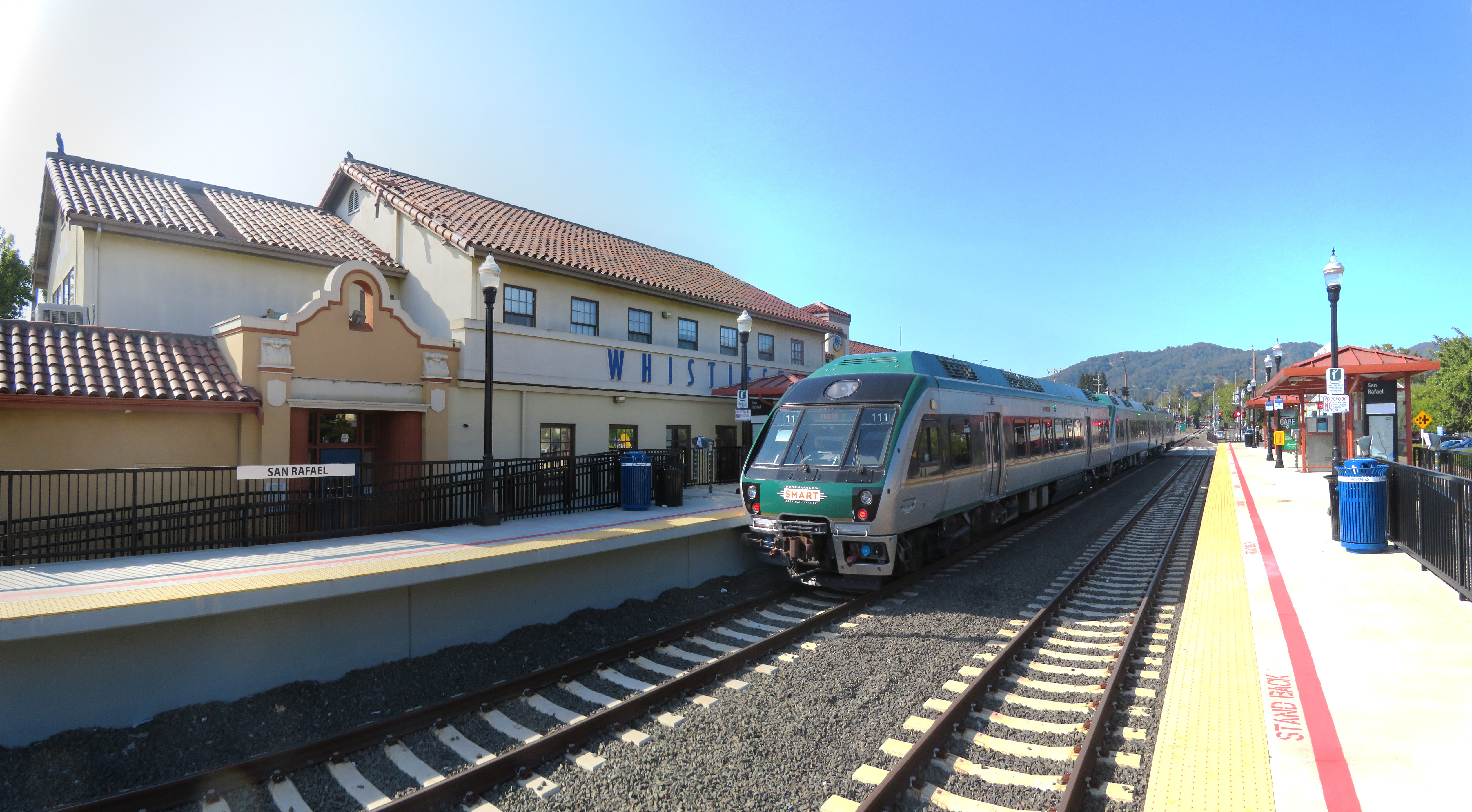 A northbound train getting ready to depart San Rafael station in August 2018